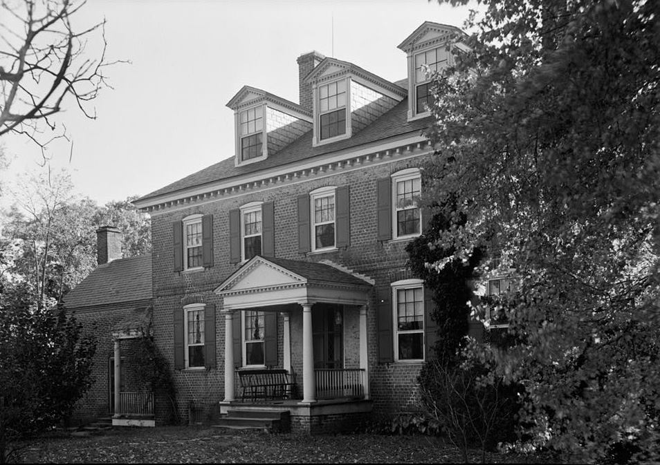 Mulberry Fields, State Route 244, Valley Lee vicinity, St. Mary's County, MD.